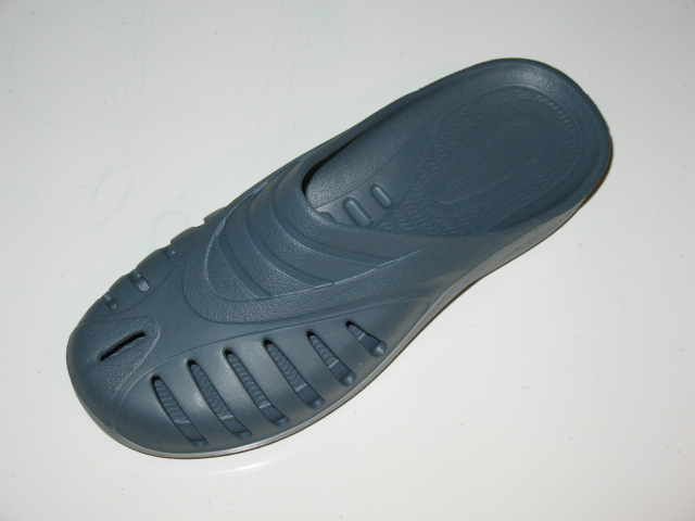 Flexible Foam Sandal